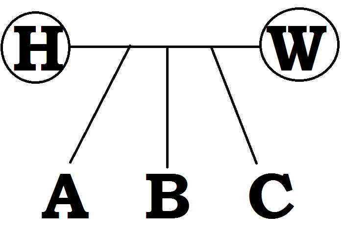 Diagram illustrating inheritance per stirpes by representation.